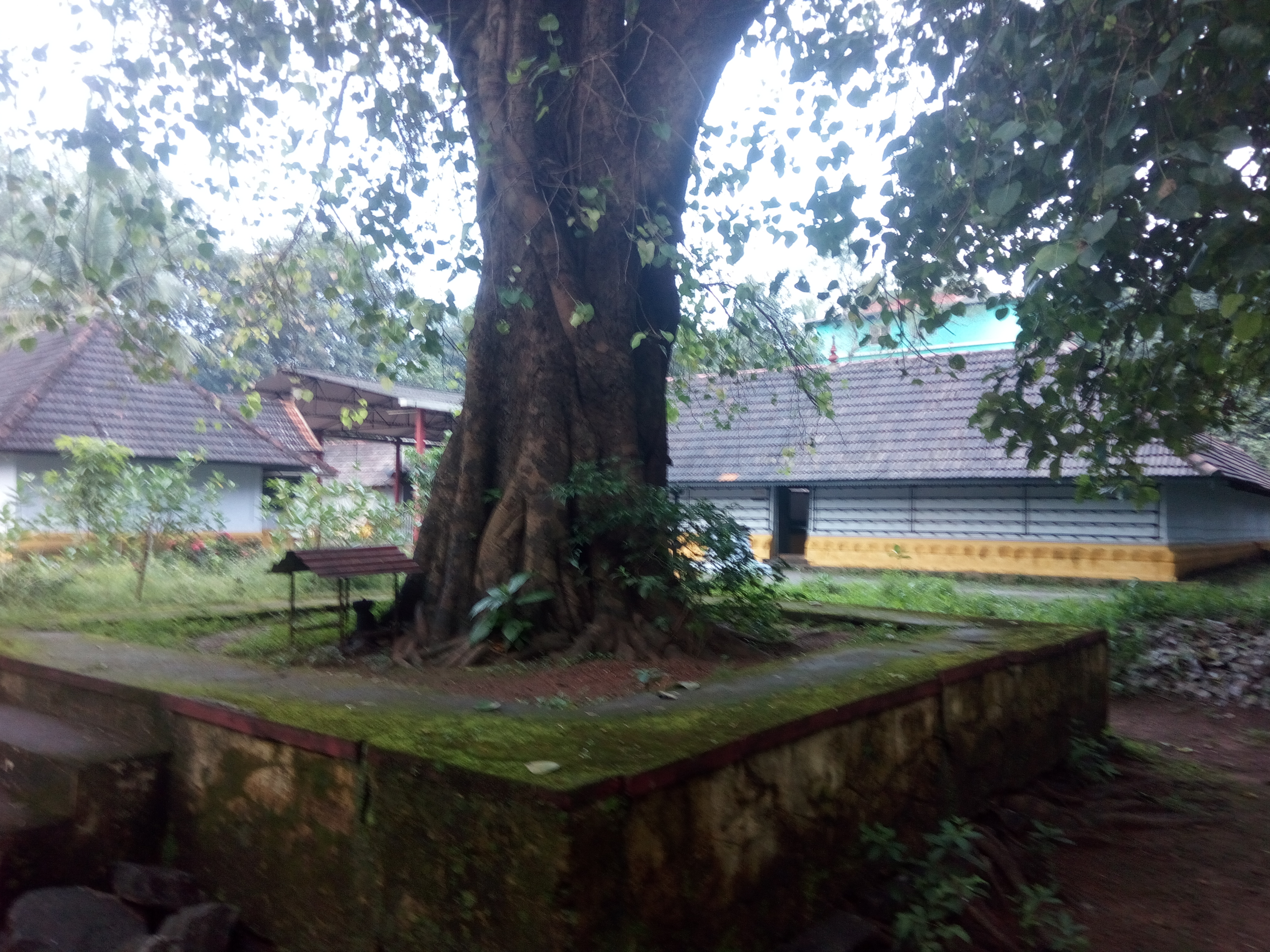 Viradur temple is at nilampur town. Almaram